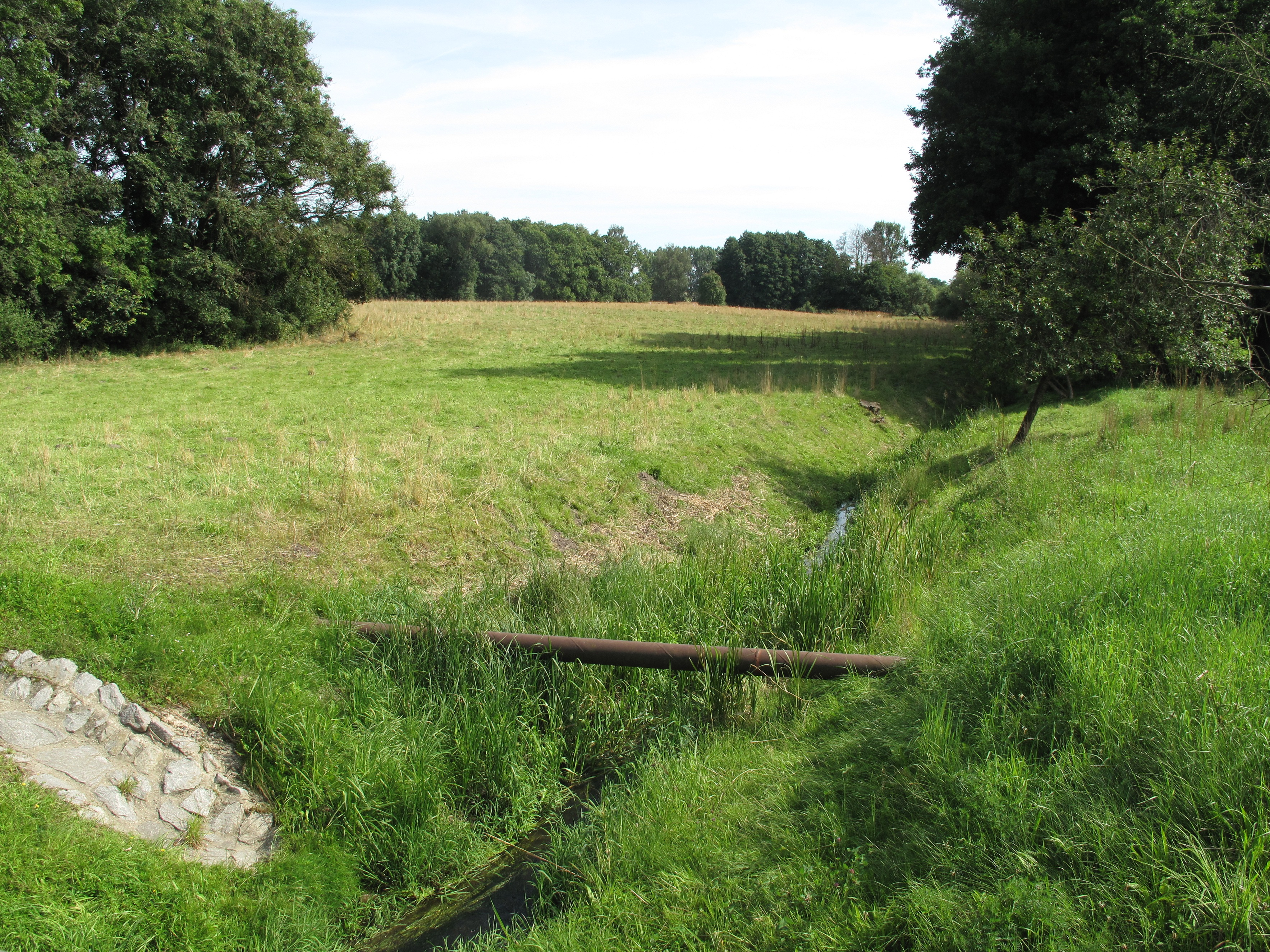 Sophienfließ in Grunow. The village Grunow is a civil parish (Ortsteil) of the municipality Oberbarnim in the District Märkisch-Oderland, Brandenburg, Germany. Grunow was first mentioned in written documents in 1315 and is situated on the Barnim Plateau in the Märkische Schweiz Nature Park. In 2010 the village had about 350 inhabitants (incl. it’s part Ernsthof). Due to its fieldstone-Builsdings and –streets Grunow is a part of the Oberbarnimer Feldsteinroute, a 41,5 kilometers long walking and bike trail in the traces of the building material fieldstone.